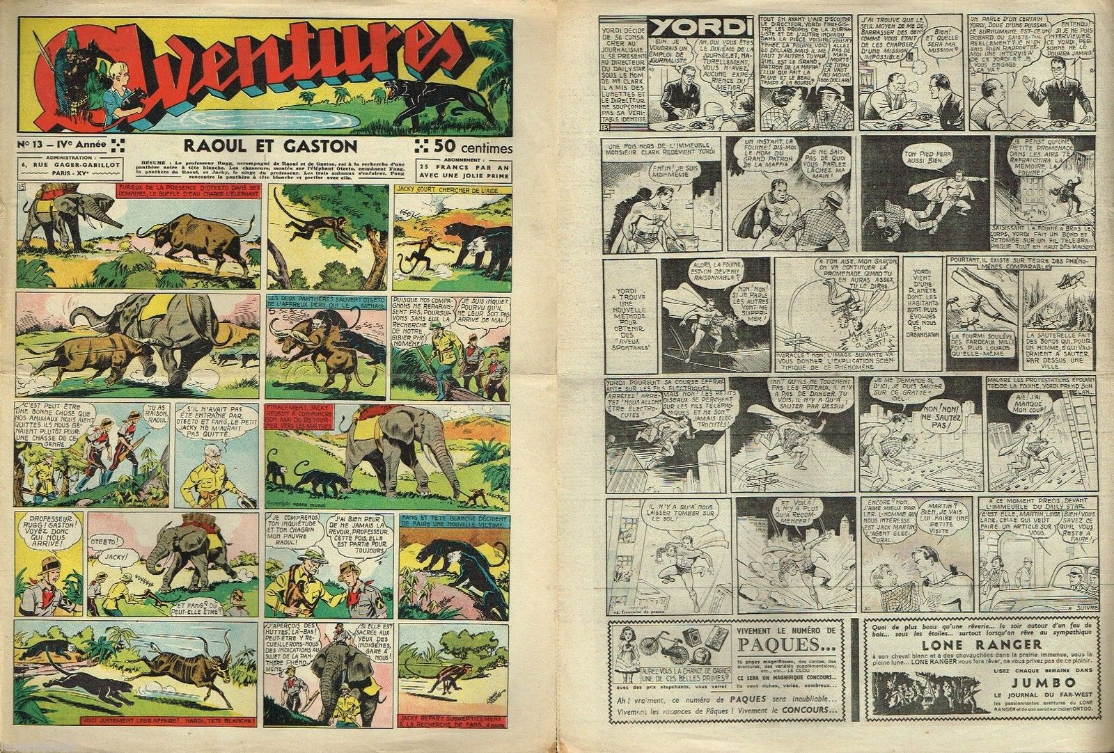 Les Grandes Aventures #13 cover and backpage (Featuring Superman on the right)